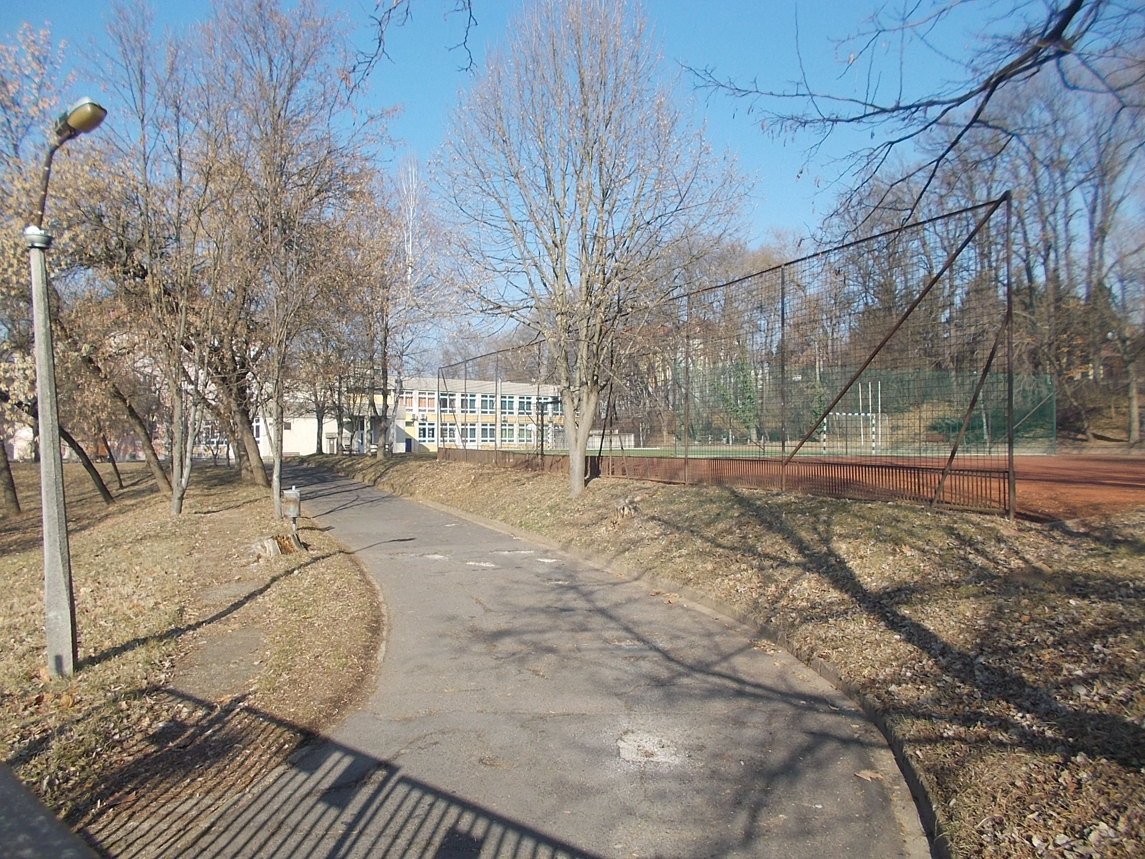 Petőfi Sándor High School, Mechanical Engineering Gymnasium and Student Housing. Part of the Vác Vocational Training Center. Former latin school or Petőfi Lutheran High School from Route 3, Aszód, Pest County.